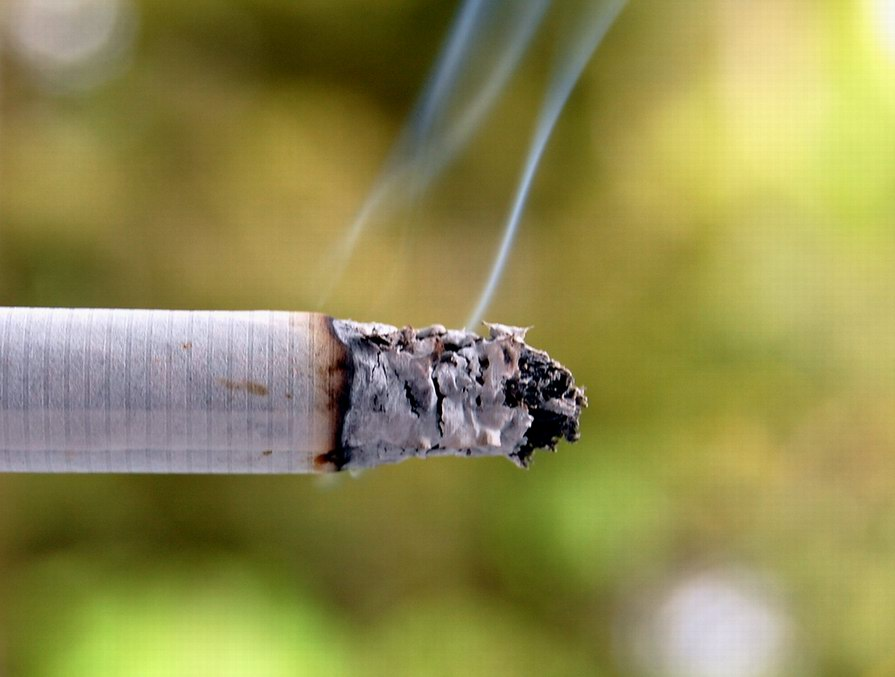 its hard keeping this one on one hand and the camera on the other. :)